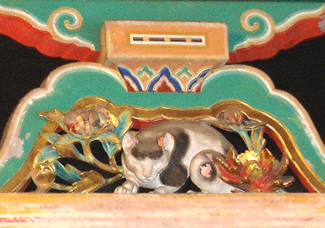 Toshogu Nikko: Sleeping cat